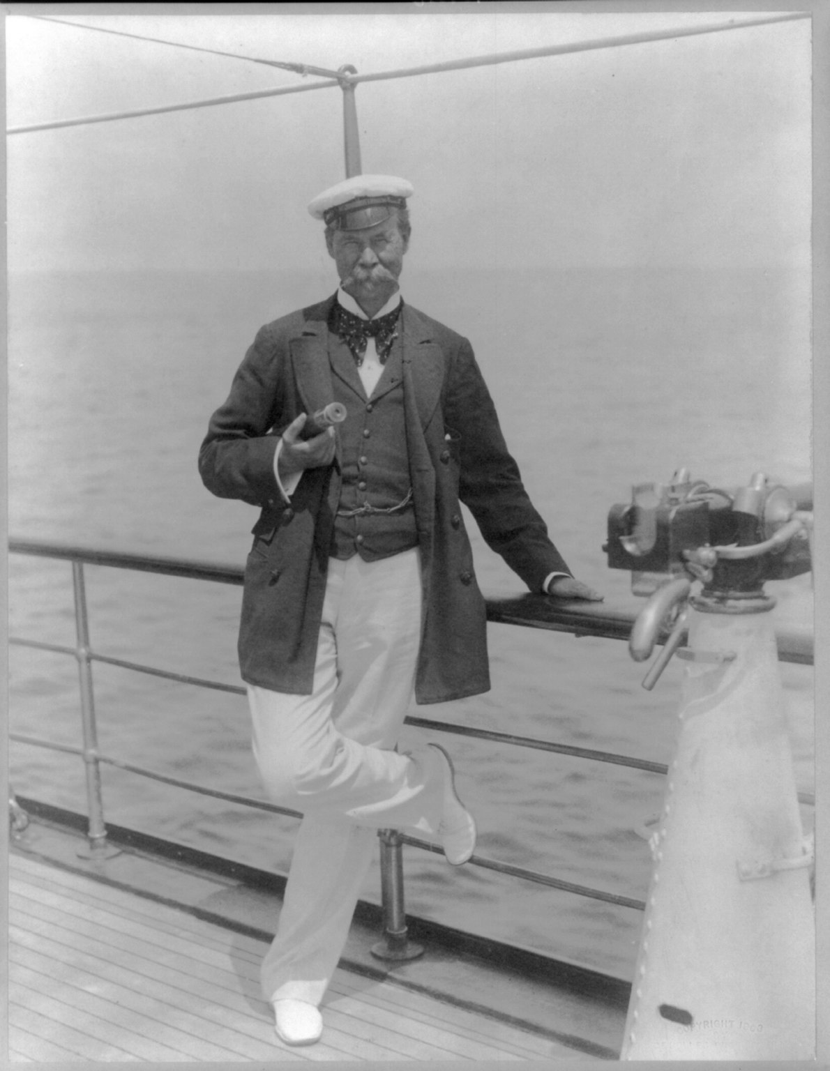 Title: Sir Thomas Lipton, full-length portrait, standing at rail of his yacht, the "Erin" Abstract/medium: 1 photographic print.